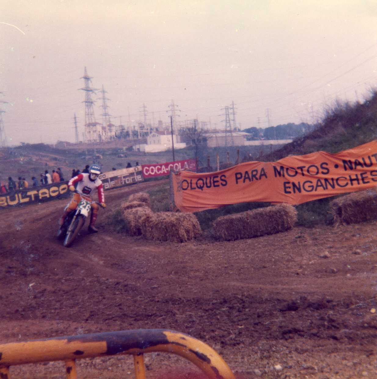 Fernando Muñoz (Montesa Cappra) while practicing, before the races, at Circuit del Vallès, Sabadell-Terrassa (Catalonia), during the 1978 spanish MX GP 250cc.